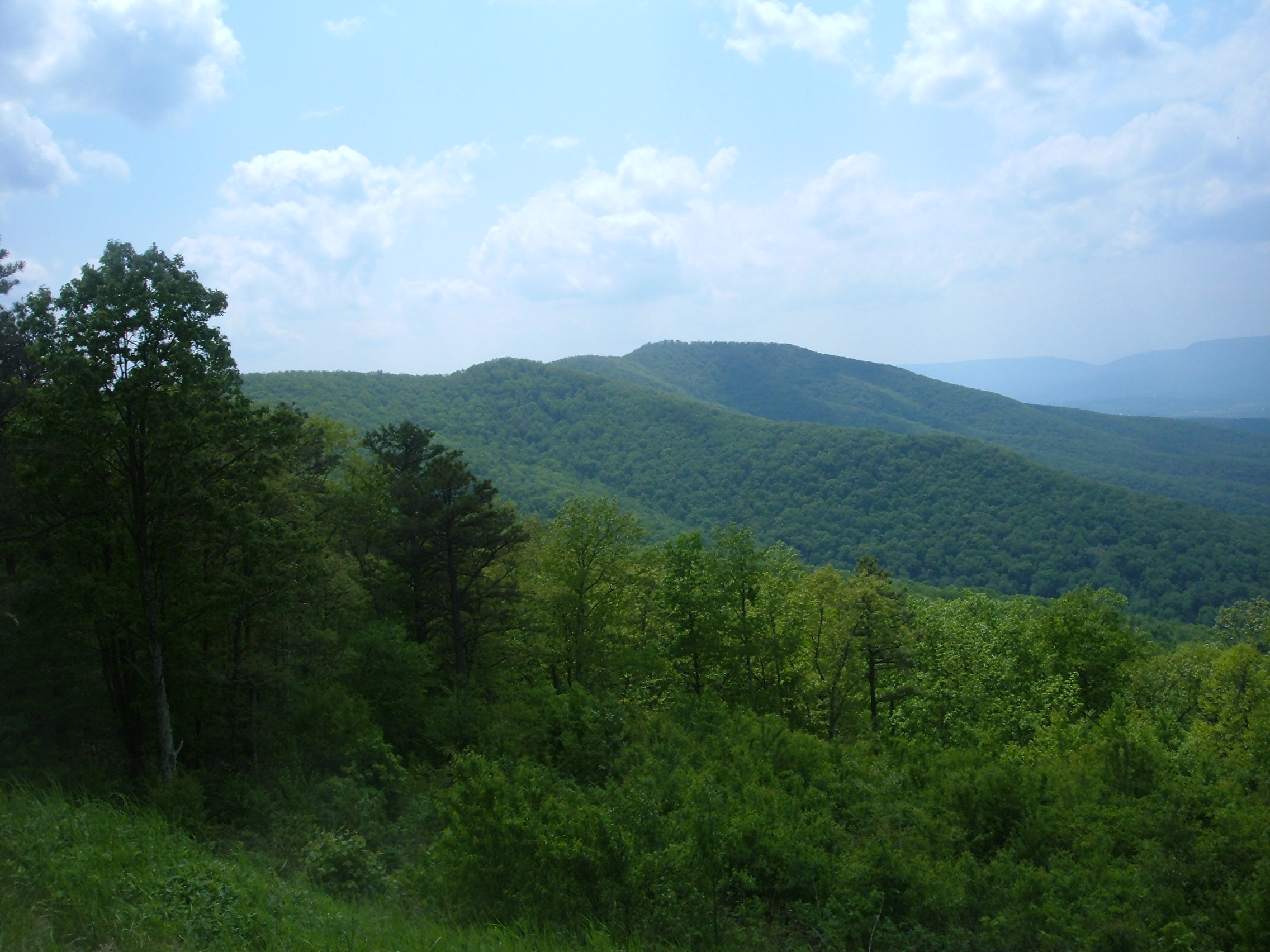 Photo of Neighbor Mountain taken from Jeremy's Run Overlook. Photo by Kevin Borland.